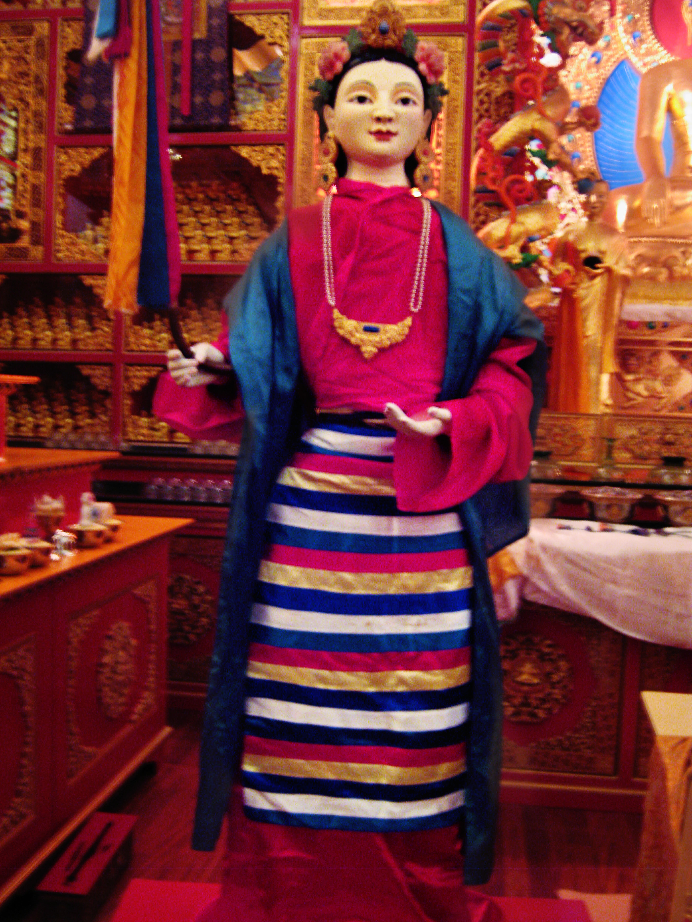 Guru Rinpoche's consort Mandarava. Guru Rinpoche Drubcho, Samye Ling. August 2010.